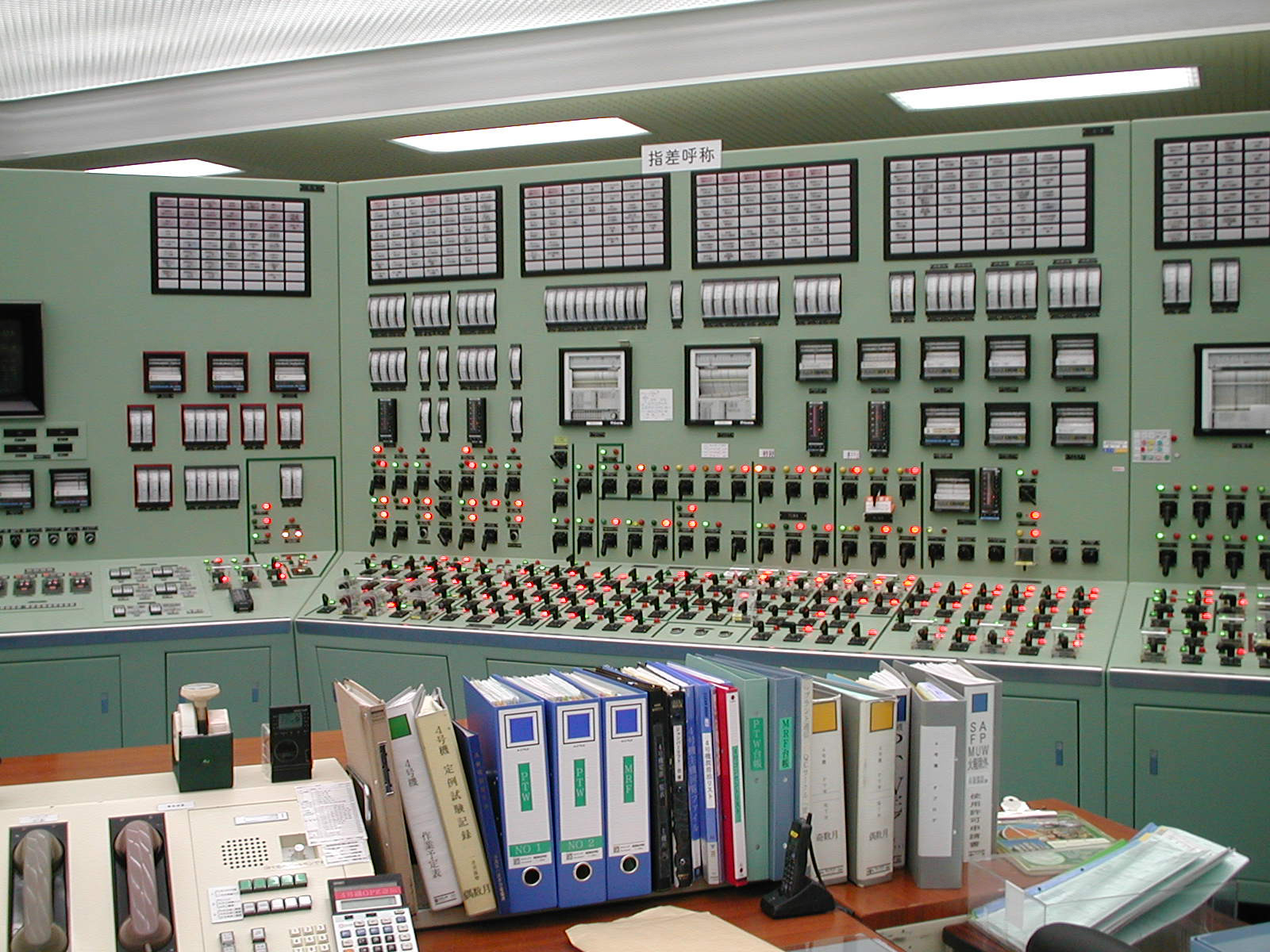 One of the photos taken at the Fukushima I Nuclear Power Plant tour sponsored by the Tokyo Electric Power Company on June 23, 1999.